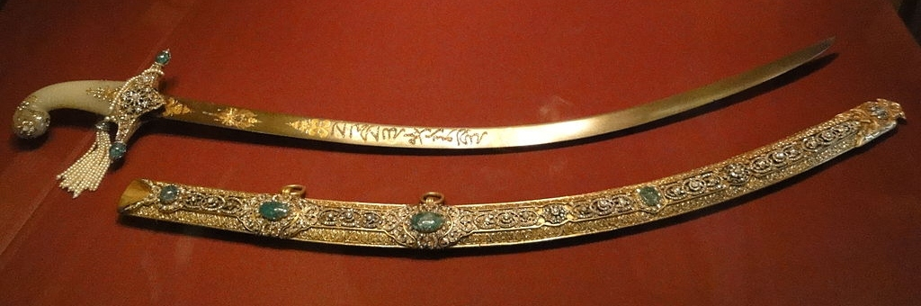 Metropolitan Museum of Art.